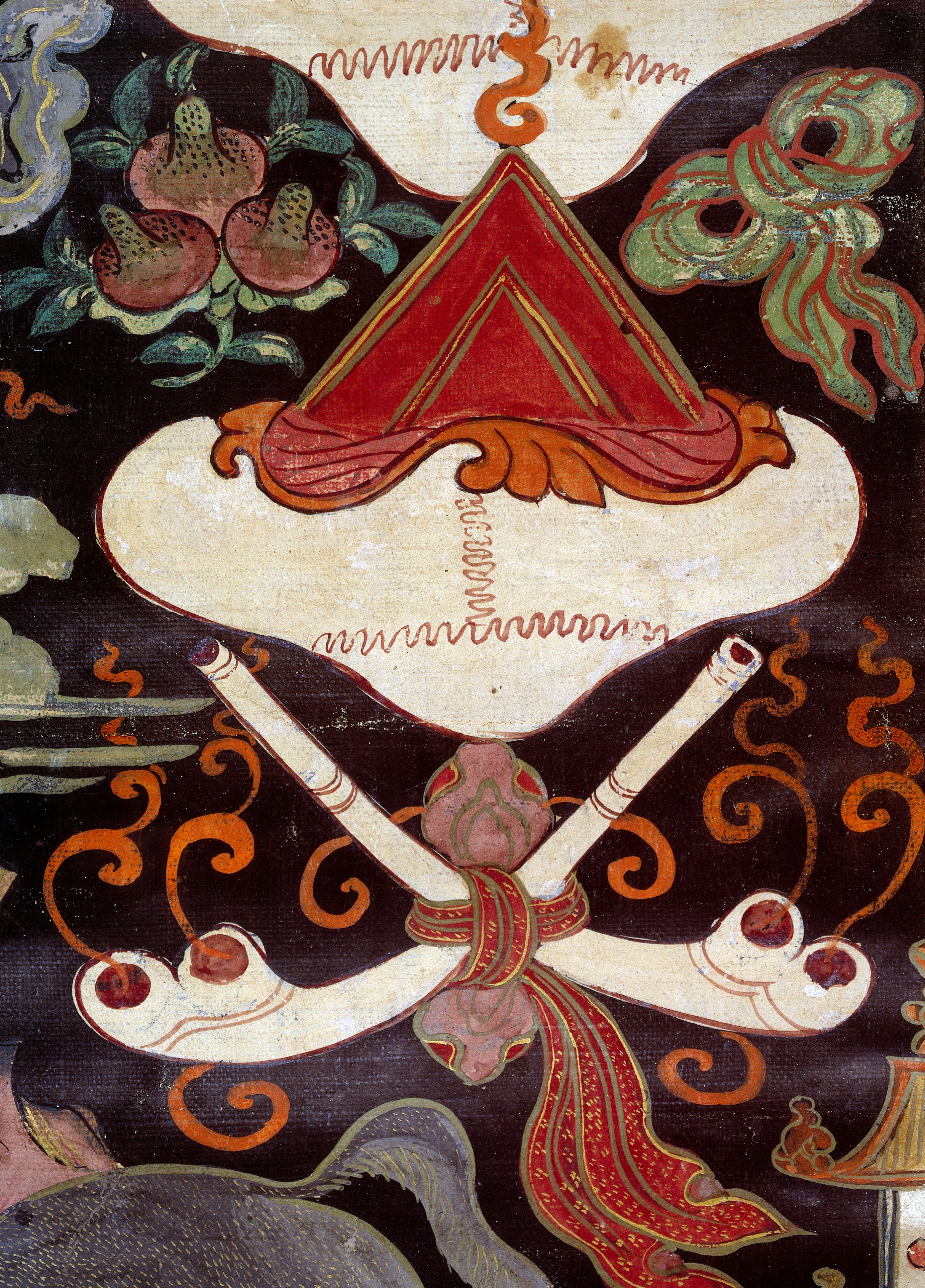 Detail of two shin-bone trumpets from a Tibetan banner representing attributes of dPal-Idan Lha-mo (Remati Sridevi), or Yamaraja "The Conqueror of death". Iconographic Collections Keywords: Buddhist; Demon; Demonology; Monsters; Religion; Art; Skull; Animals; Buddhism; Tibet